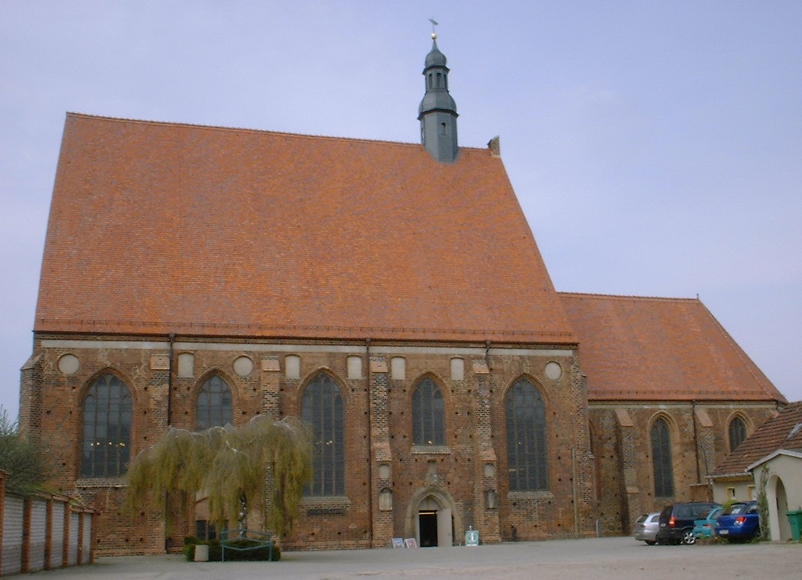 Franciscan Church in Jüterbog in Brandenburg, Germany